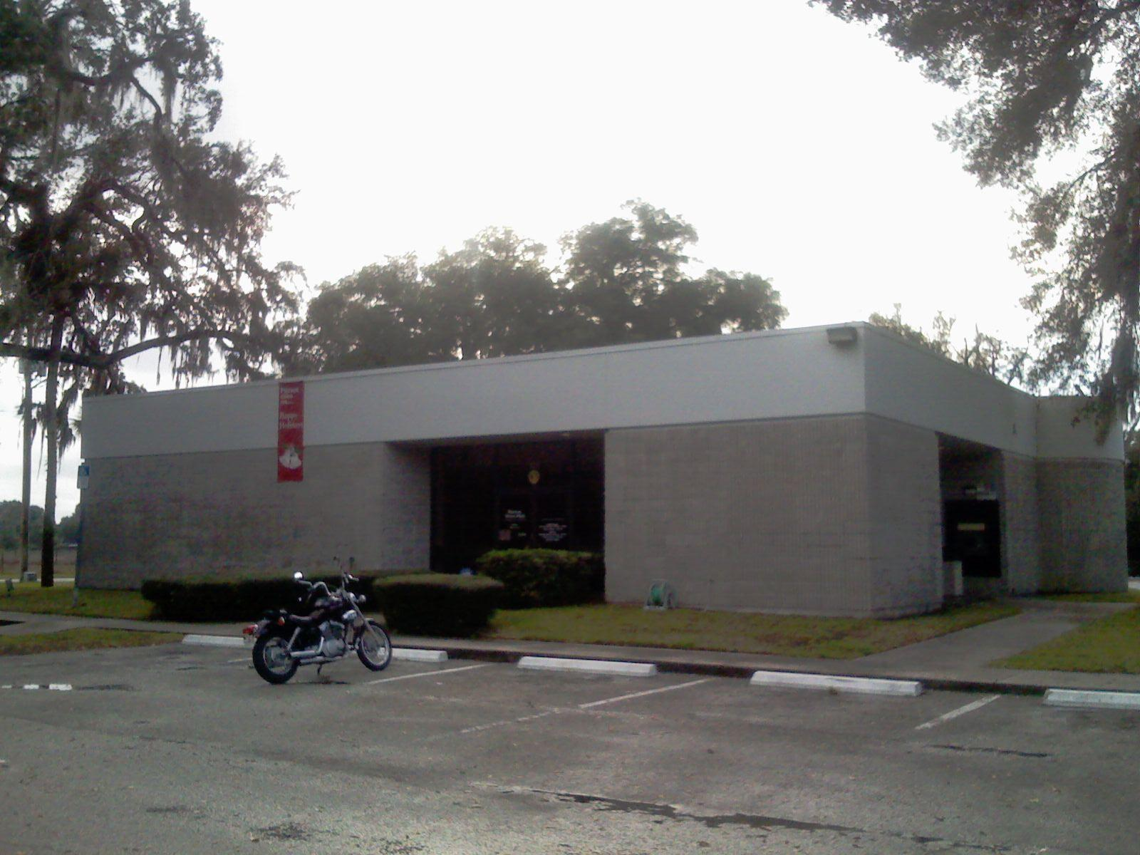 The town hall for the town of Pierson, Florida (United States). The town hall shares a building with a local bank branch.